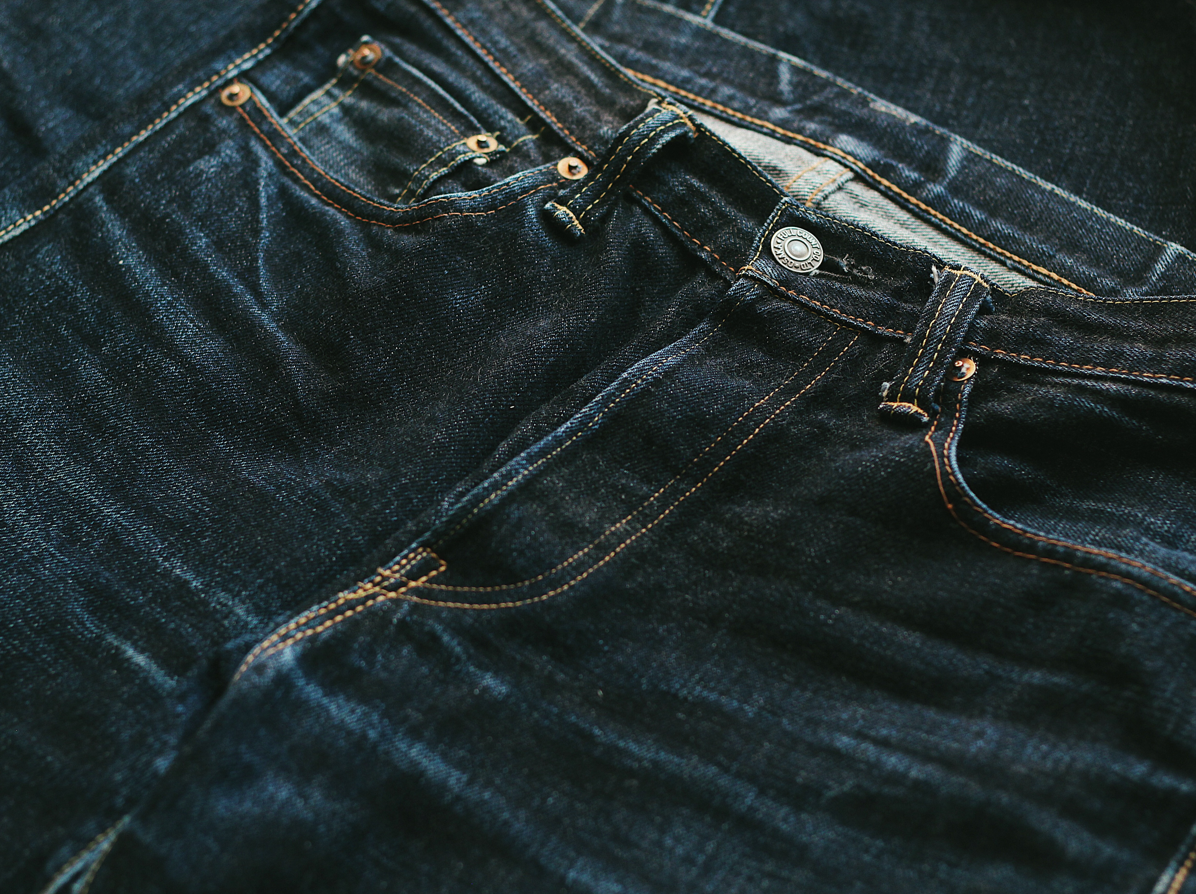 Natural 'honeycomb' or 'whisker' style fades on a pair of Full Count japanese selvedge denim.